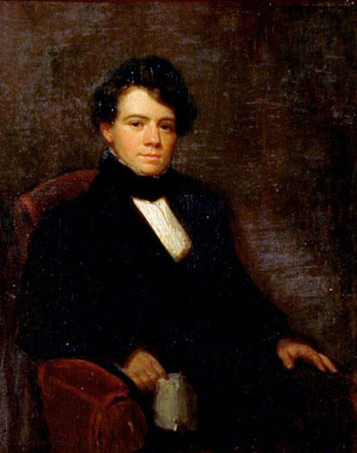 Painting of John Church Hamilton (1792–1882), American historian, the fourth son of Alexander Hamilton and Elizabeth Schuyler Hamilton. Medium: oil on canvas mounted on mahogany panel Dimensions: Unframed: 8 1/4 × 6 3/4 inches (21 × 17.1 cm) Framed: 11 3/4 × 10 1/2 × 2 1/8 inches (29.8 × 26.7 × 5.4 cm)